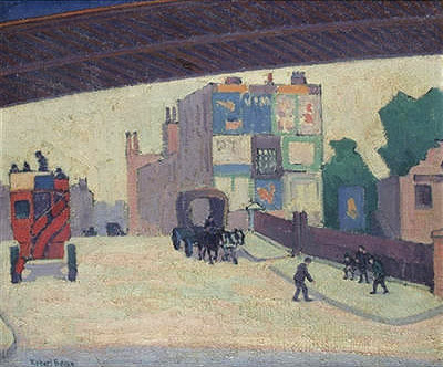 Dated circa 1912-13. The view is believed to be from Chalk Farm Road at the junction with Castlehaven Road looking towards Camden Lock.